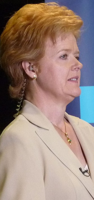 TV3 political editor Ursula Halligan at the European, local and by-election counts in the RDS